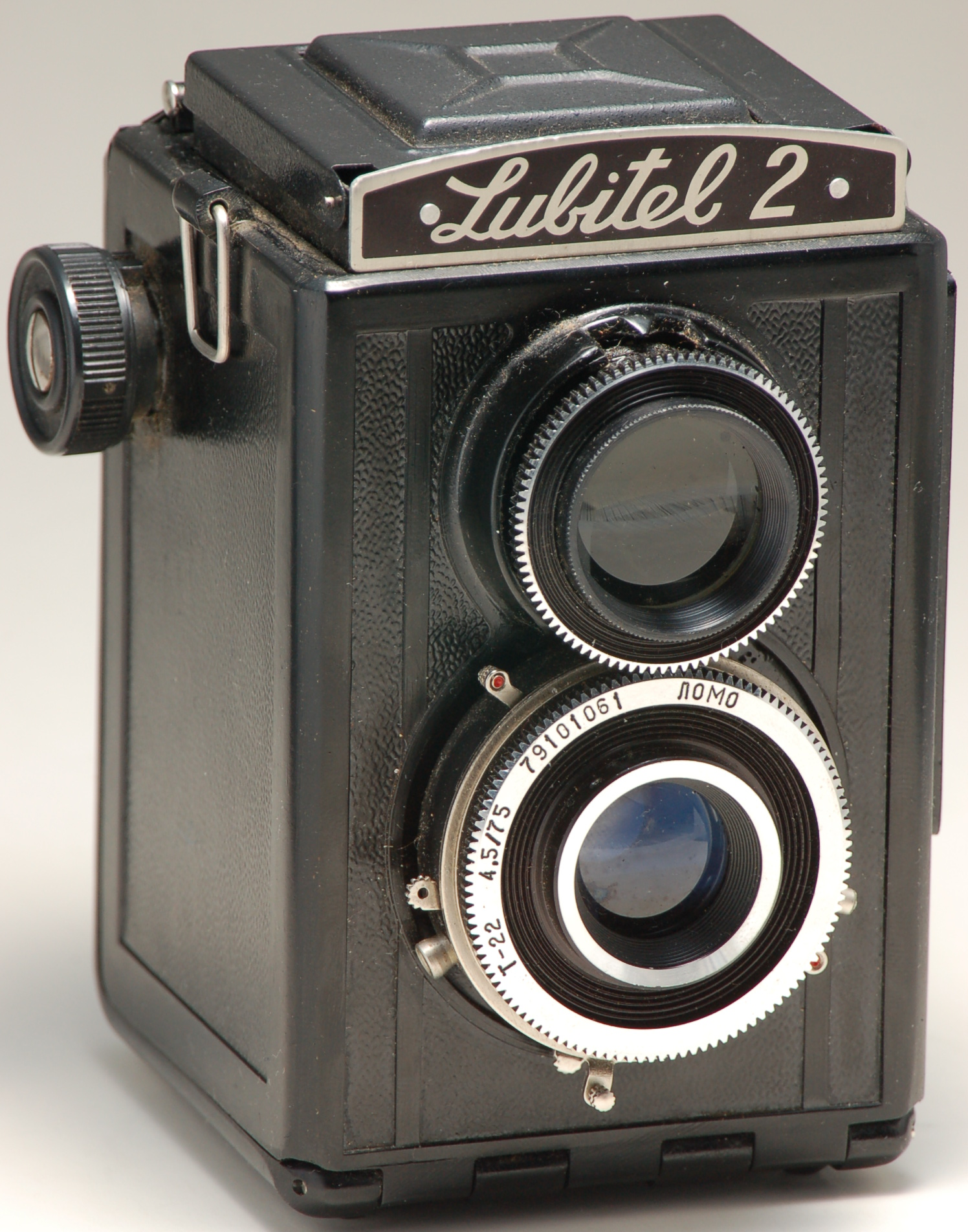 Lubitel 2 medim format twin lens reflex camera